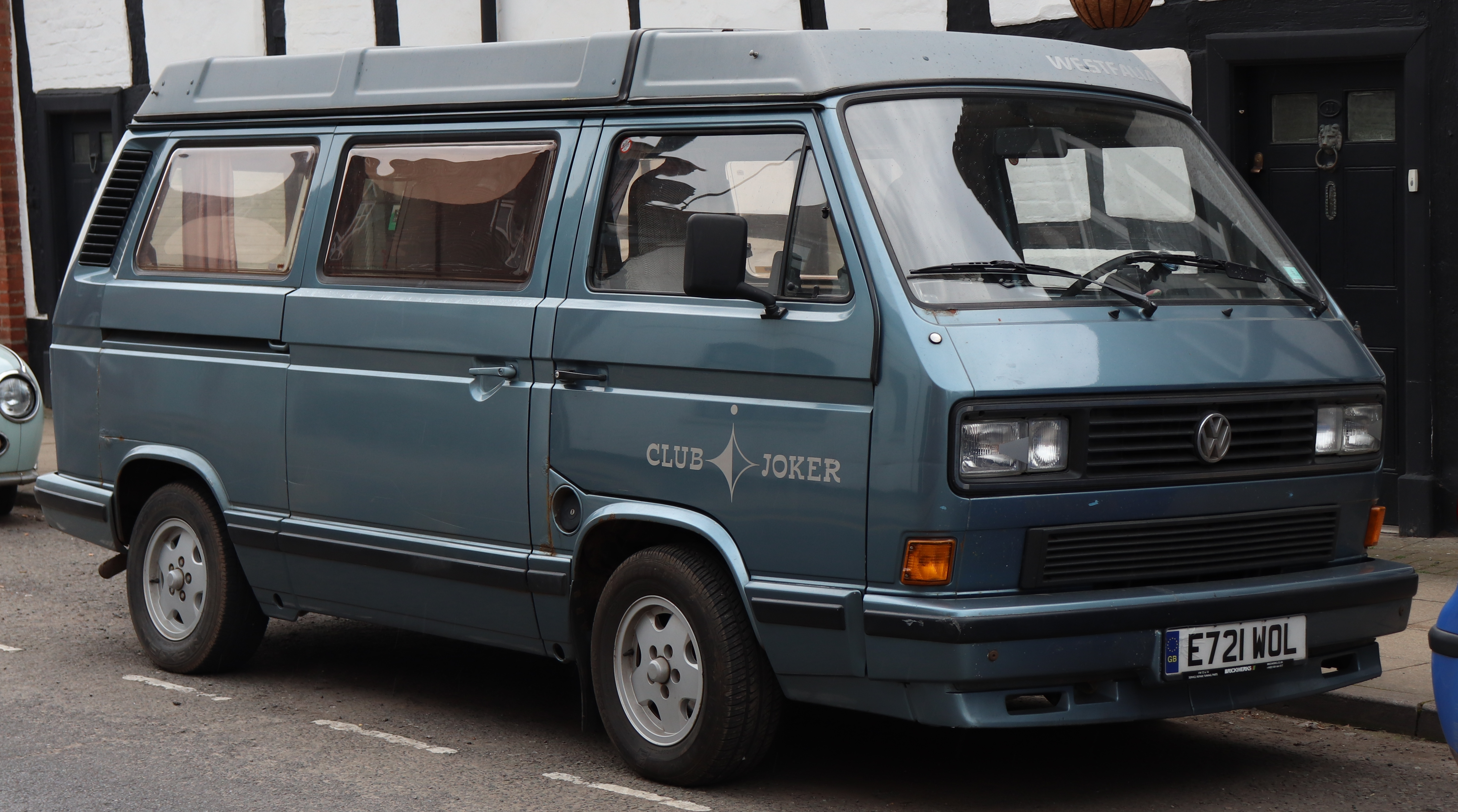 1988 Volkswagen Transporter 2.1 Front Taken in Warwick